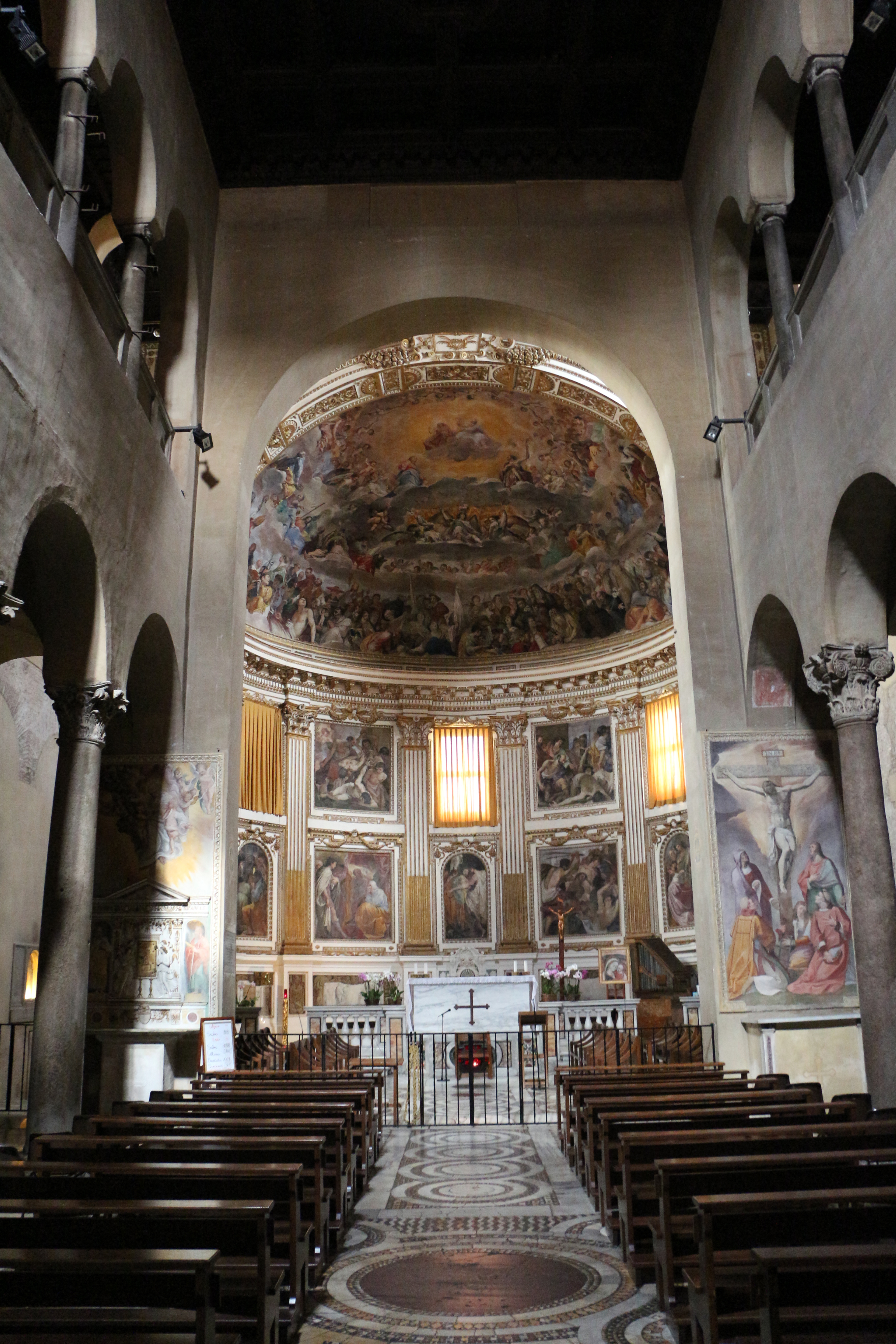 Santi Quattro Coronati (Rome)